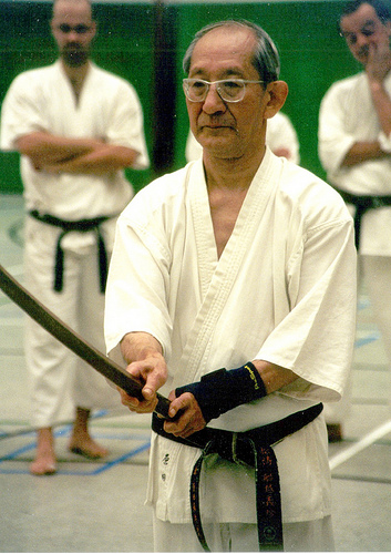 Picture of Mitsusuke Harada